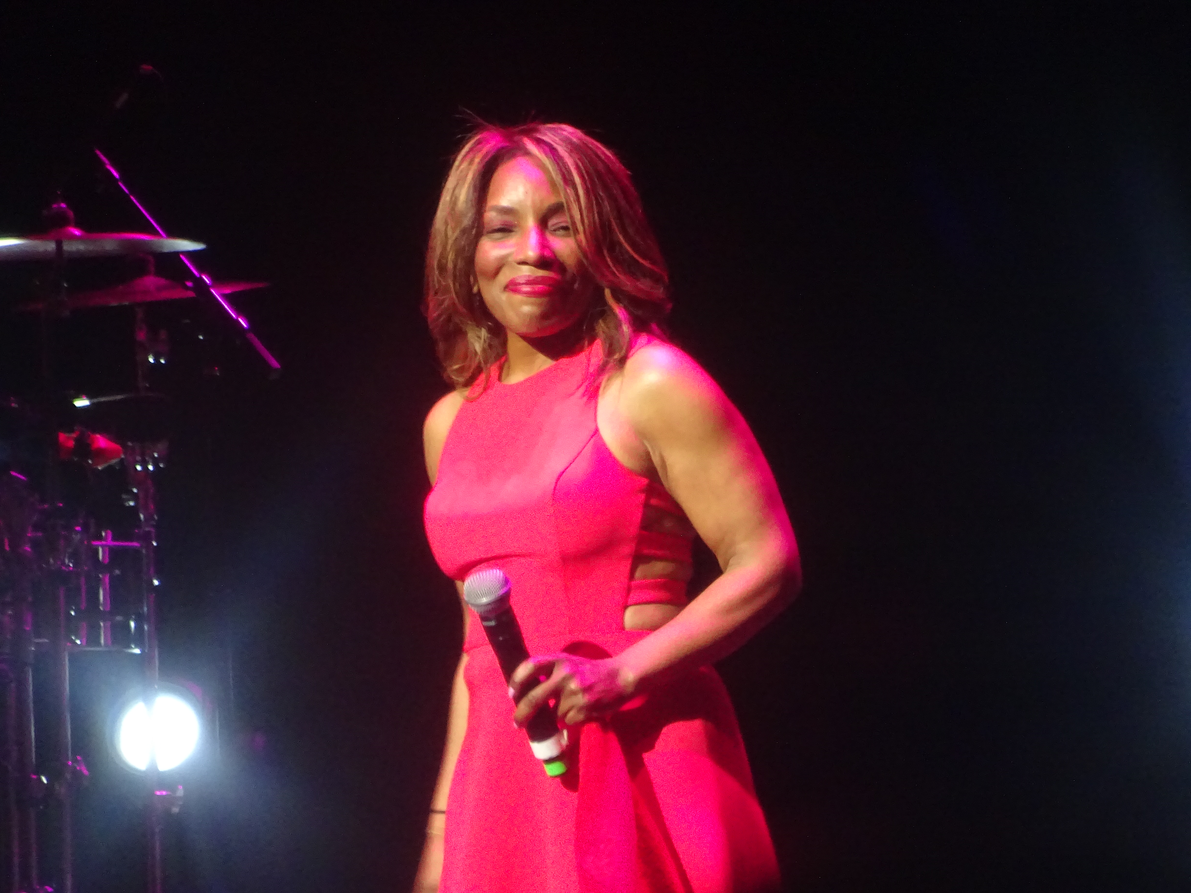 Stephanie Mills on stage in Detroit, April 2017. She played Dorothy in the original 1975 Broadway musical of The Wiz.